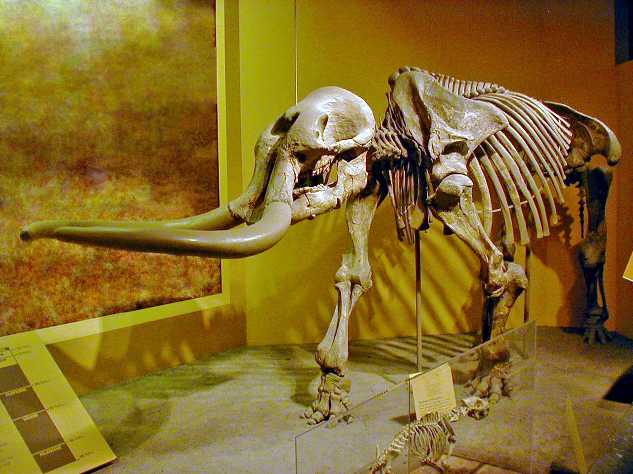 Skeleton of the gomphothere Stegomastodon mirificus (S. arizonae), from strata in the U.S. state of Arizona about one million years old, at the Smithsonian National Museum of Natural History, Washington DC